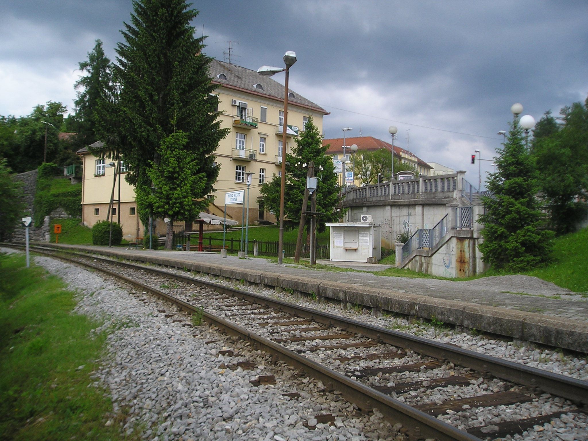 Rail halt Novo Mesto Centre in Novo Mesto, Slovenia